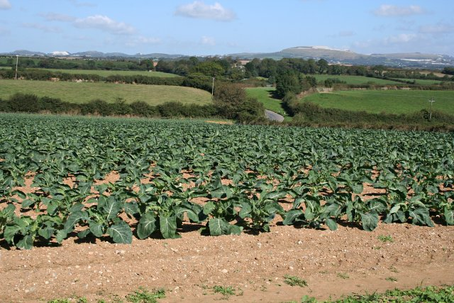 Brassicas. A field of winter greens with the hills and waste tips of the St Austell Granite on the horizon.